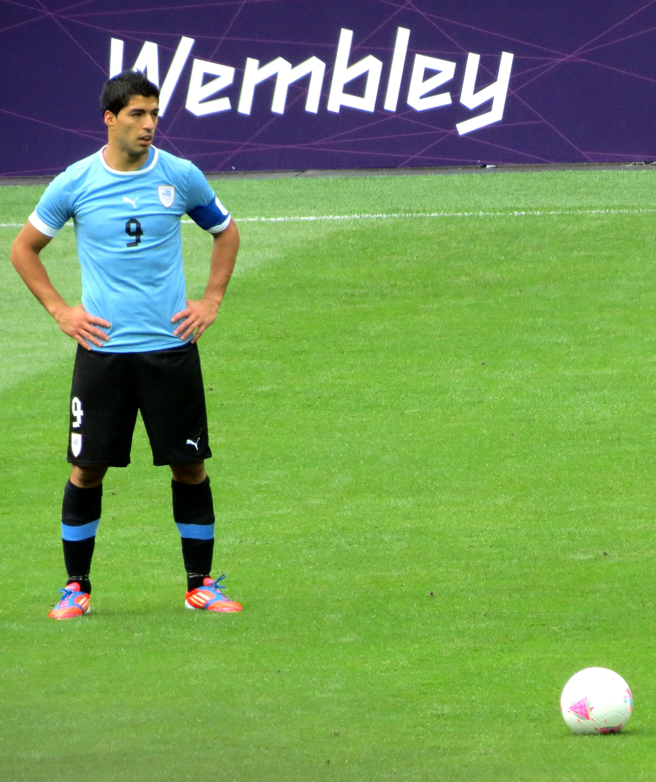 Luis Suárez playing for Uruguay at Wembley during the 2012 London Olympics